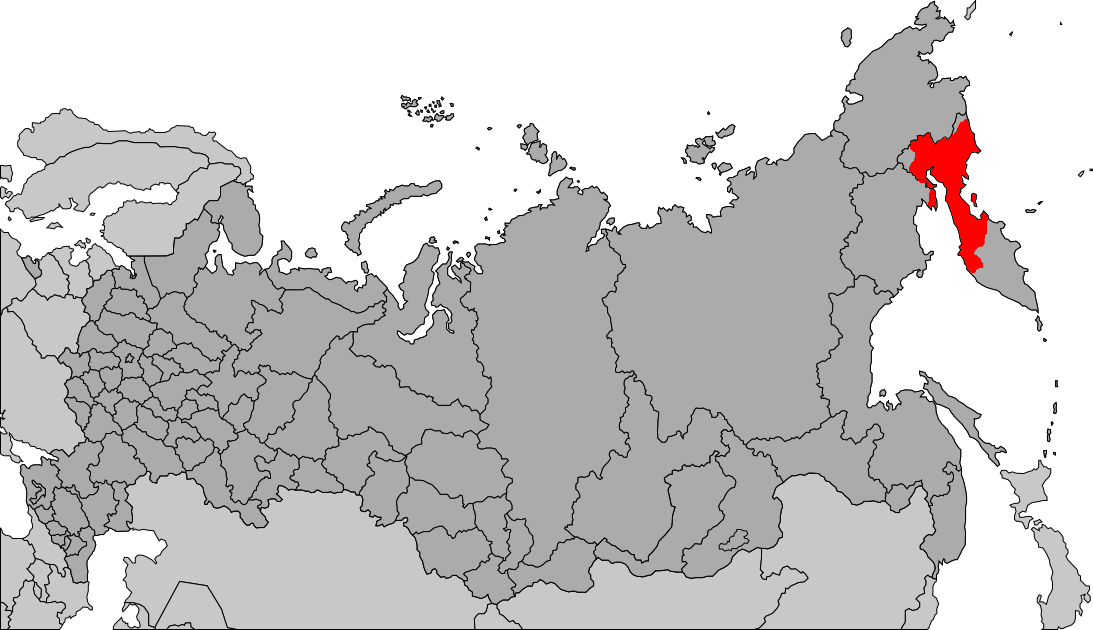 Map of Russia with highlighted area traditionally inhabited by the Koryak people.